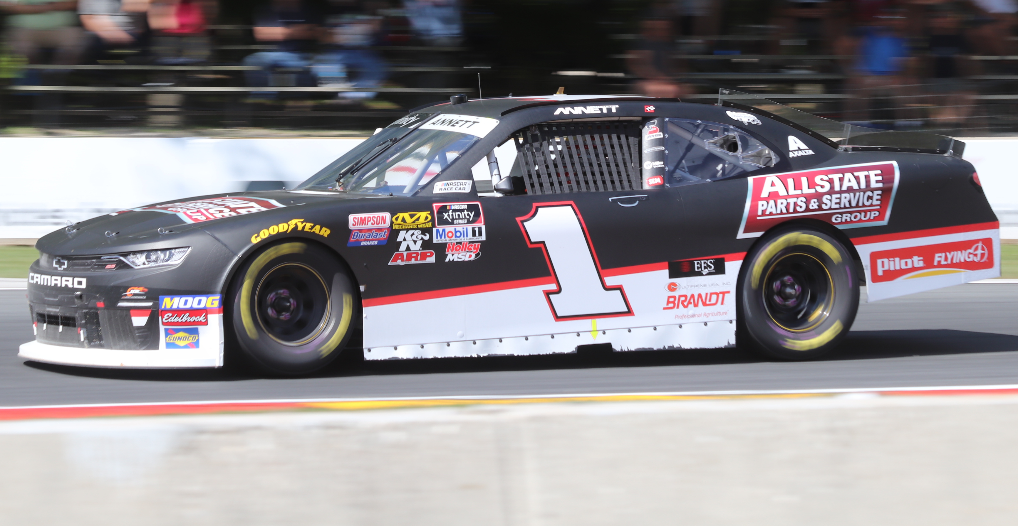 The #1 Chevrolet Camaro of Michael Annett at the NASCAR CTECH 180.